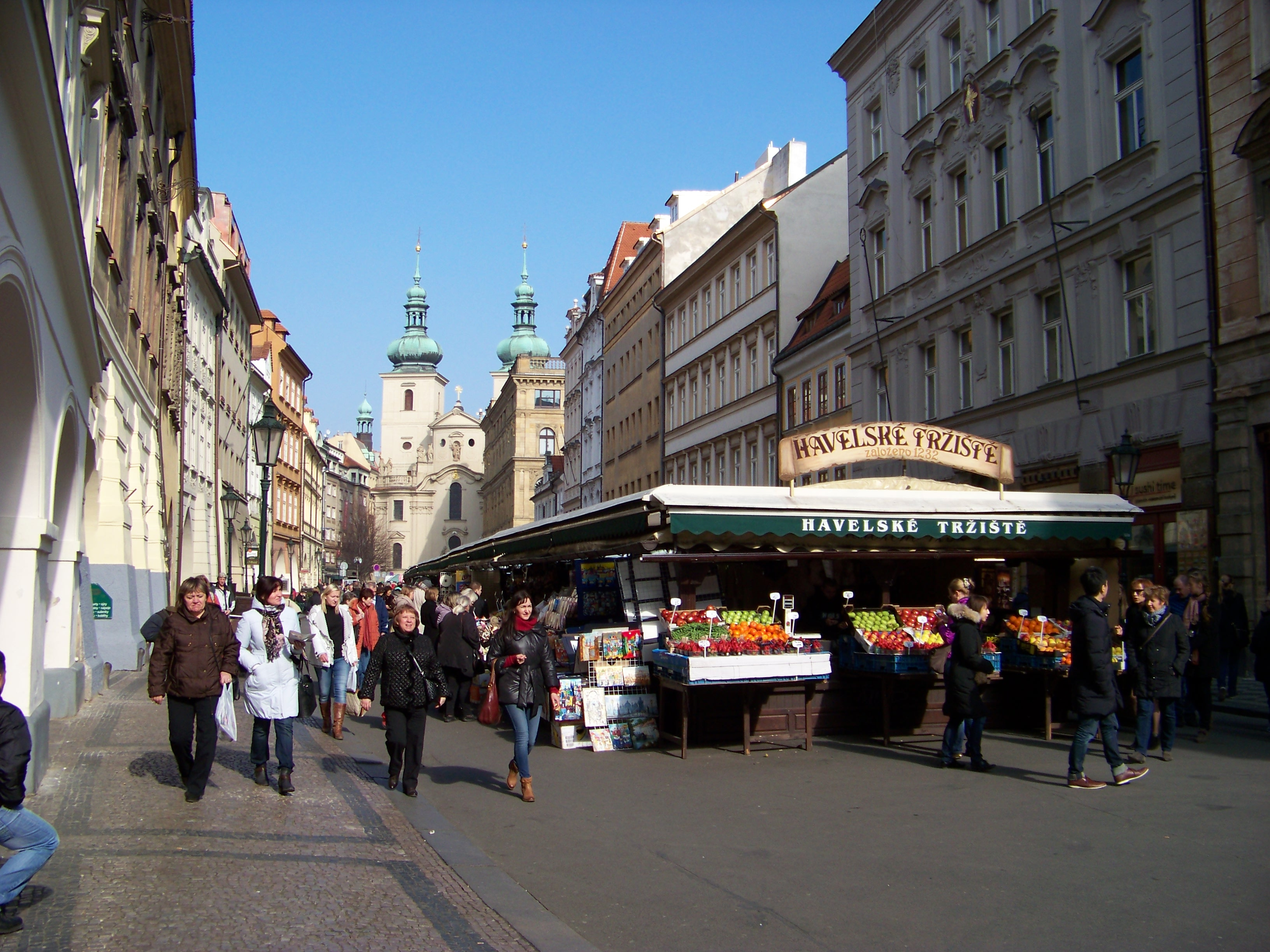 Prague-Old Town, Czech Republic. Havelská street, a market. - Google Maps - Google Earth